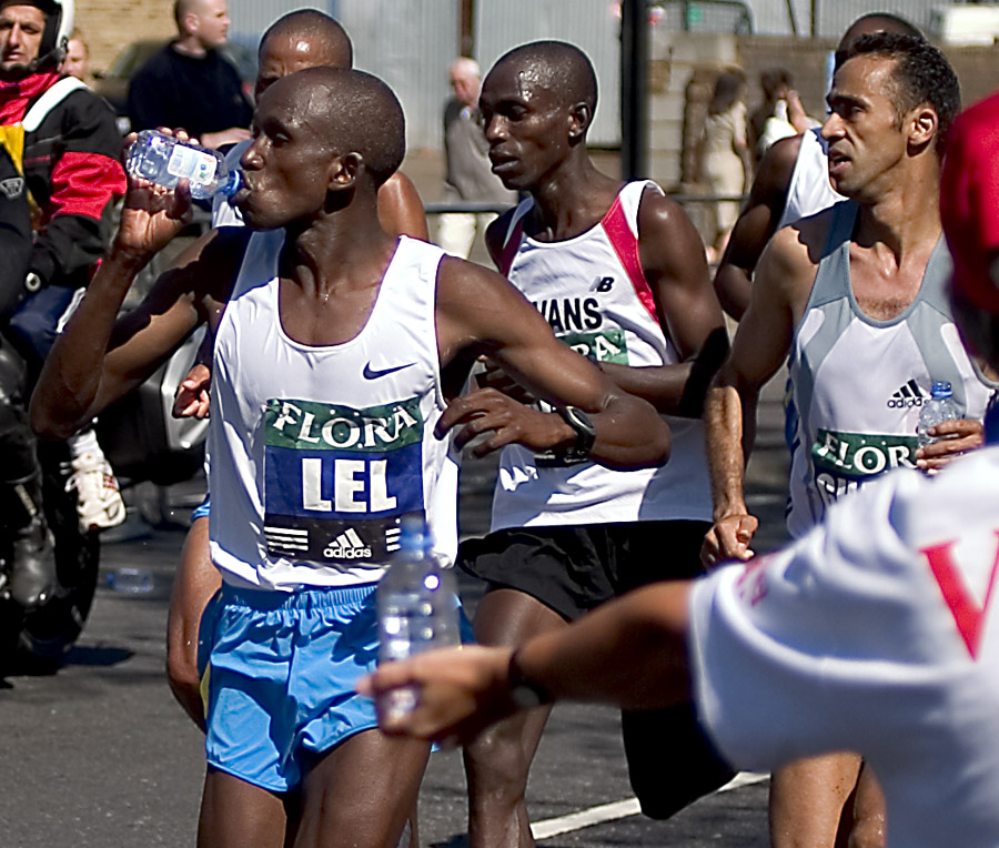 2005 London Marathon Winner, the Kenyan Martin Lel takes a drink of water closely followed by 2004 winner Evans Rutto and current world champion Jaouad Gharib.